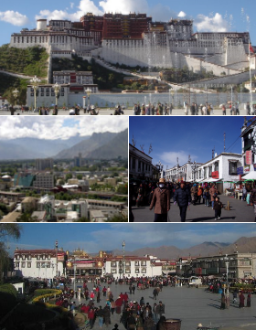 Montage of various Lhasa images